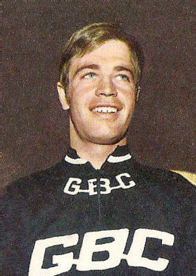 CAMPIONI DELLO SPORT PANINI 1970 1971 LUIS PFENNINGER CICLISMO